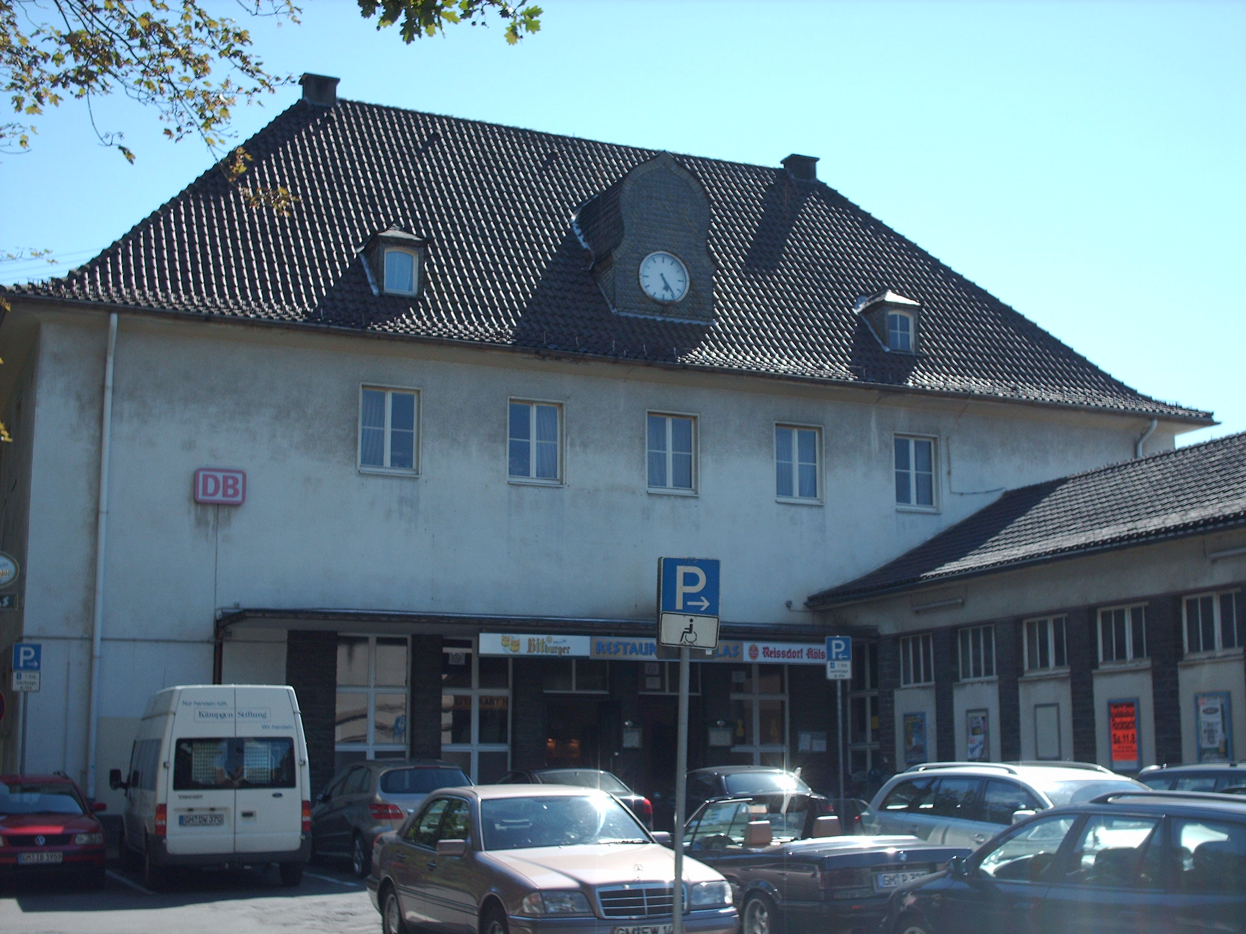 Former station building, demolished in 2012, Gummersbach, Germany check usage